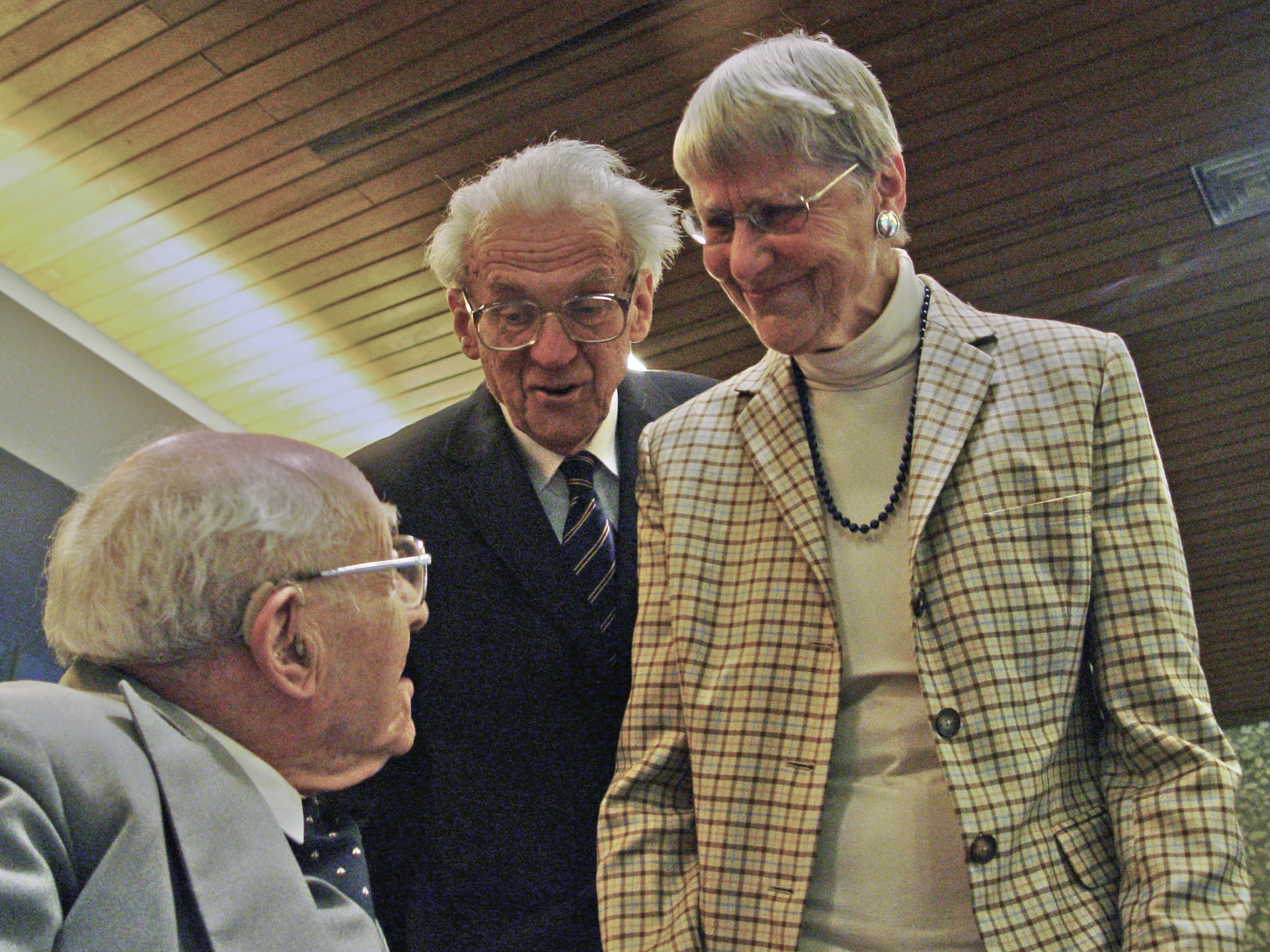 Walter Jens (mid) and Inge Jens with Josef Tal (left) at the Akademie der Künste (2004)